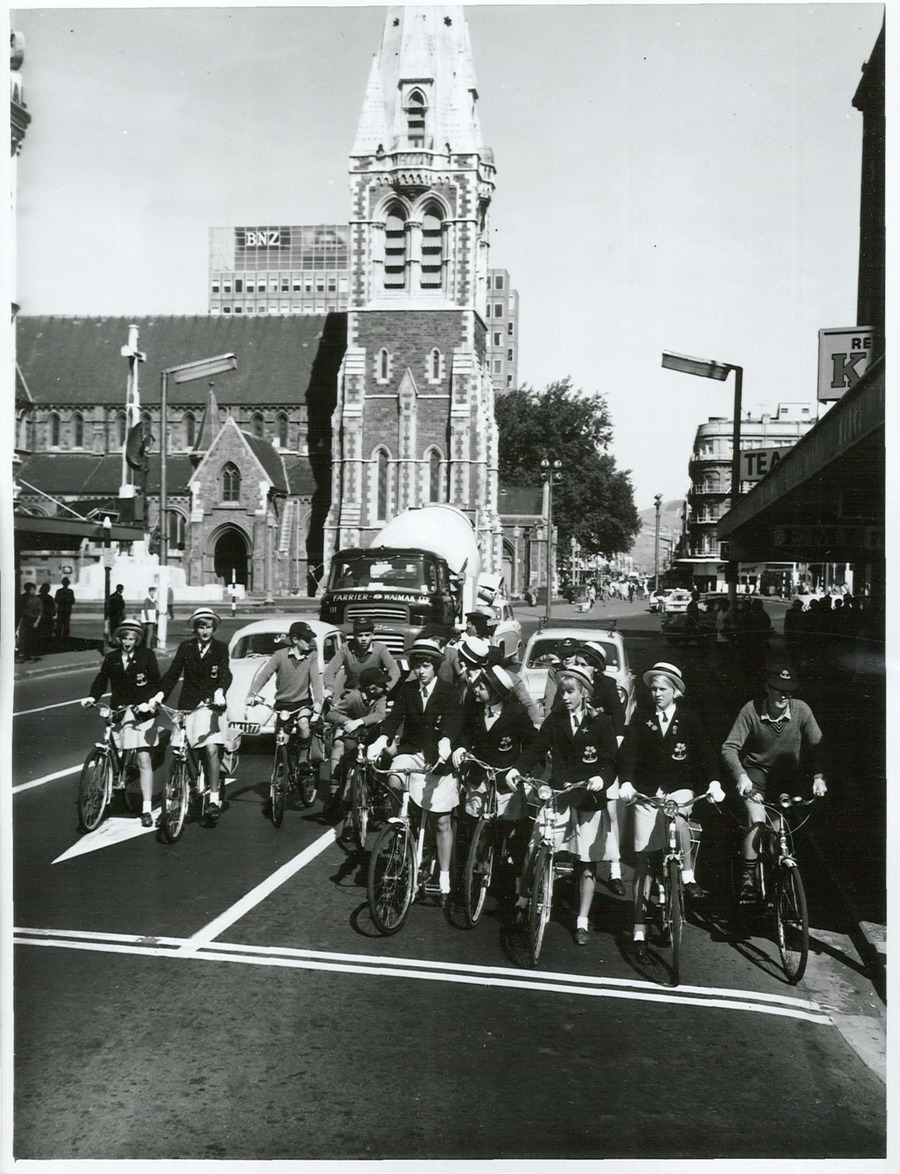 Title: Road Safety Publicity Caption: Burnside High School pupils in Colombo Street, at Gloucester Street corner, Christchurch Photographer: W Neill March 1969, Canterbury Archives New Zealand Reference: AAQT 6539 W3537 92 / A89925 For further enquiries Material from Archives New Zealand Te Rua Mahara o te Kāwanatanga